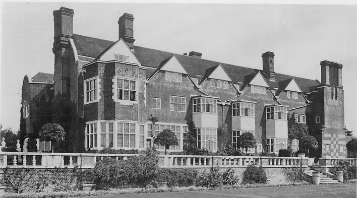 1910 photograph of Avon Tyrrell House, Sopley, Hampshire. Photograph taken in preparation for article by Country Life Magazine, June 11th 1910: Avon Tyrrell, Christchurch in Hampshire, The Seat of Lord Manners